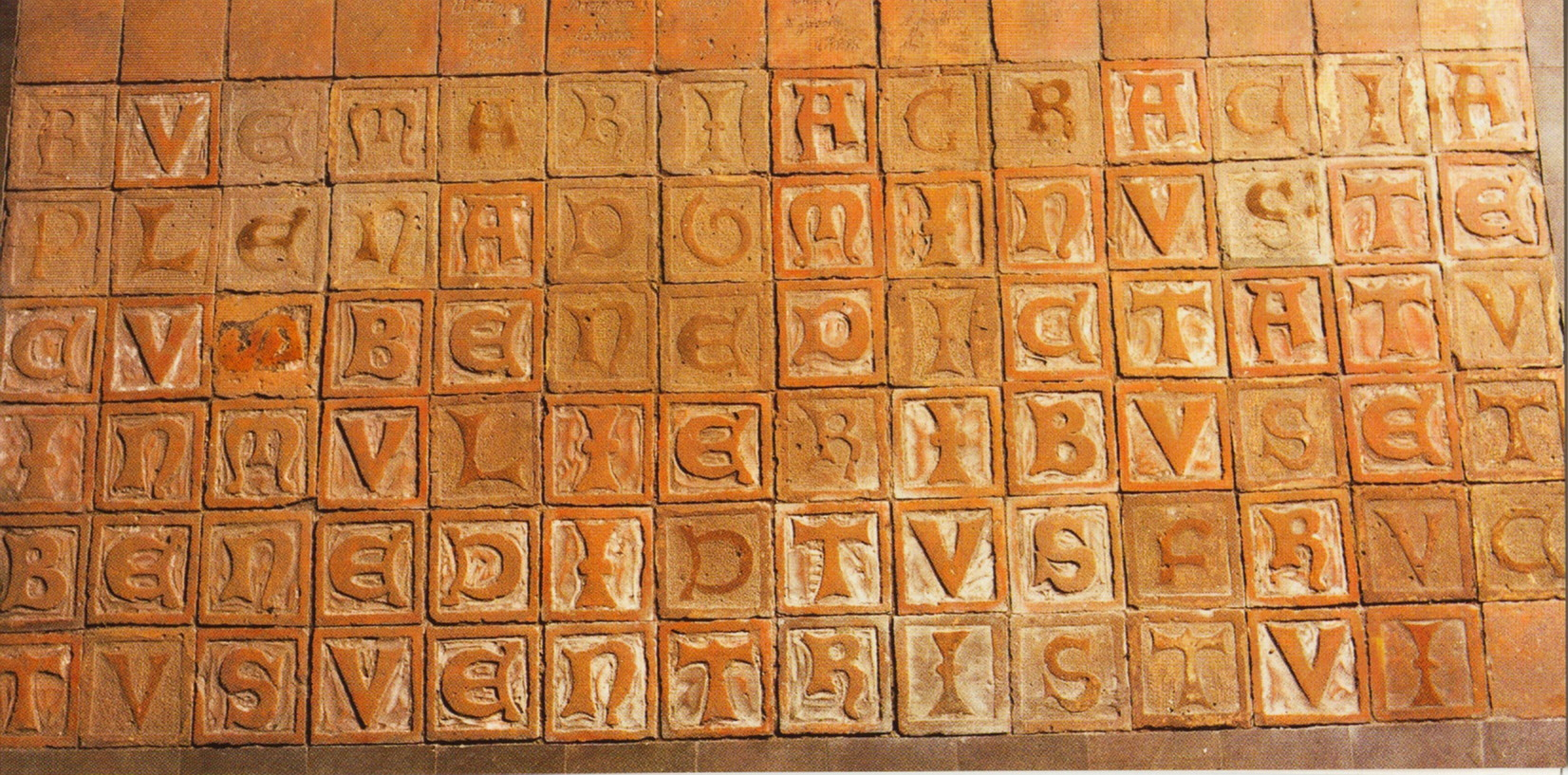 Ave Maria embedded in the floor before the altar of Zinna Abbey, Brandenburg, Germany. Each letter tile appears as a relief print on an unglazed, red-brown terracotta tile measuring 14 x 14 cm. The Latin inscription dates to the 13th or 14th century and was composed in Gothic majuscule. The text runs as follows: AVE / MARIA / GRACIA / PLENA / DOMINVS / TE / CVM / BENEDICTA / TV / IN / MVLIERIBVS / ET / BENEDICTVS / FRVC / TVS / VENTRIS / TVI /